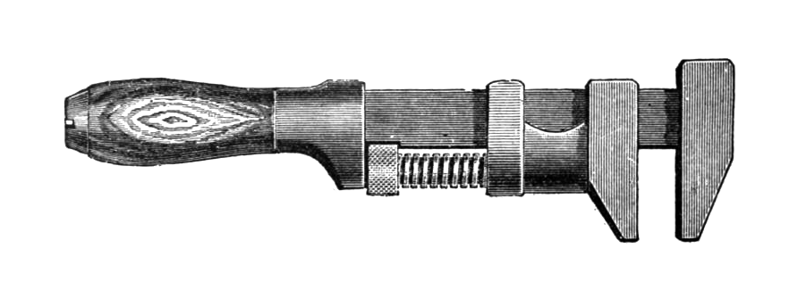 A close-up derived from page 172 of The Progressive Machinist by William Rogers, (1903 T. Audel & Co.) showing a monkey wrench.